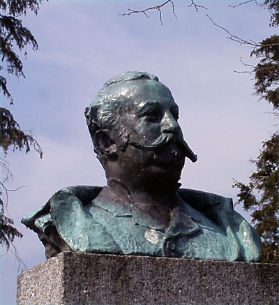 Statue of Norwegian author Alexander Kielland in the Reknes Park in Molde, Norway. Statue created by Peder Severin Krøyer (1851-1909), and unveiled by Bj Børnson 1907.